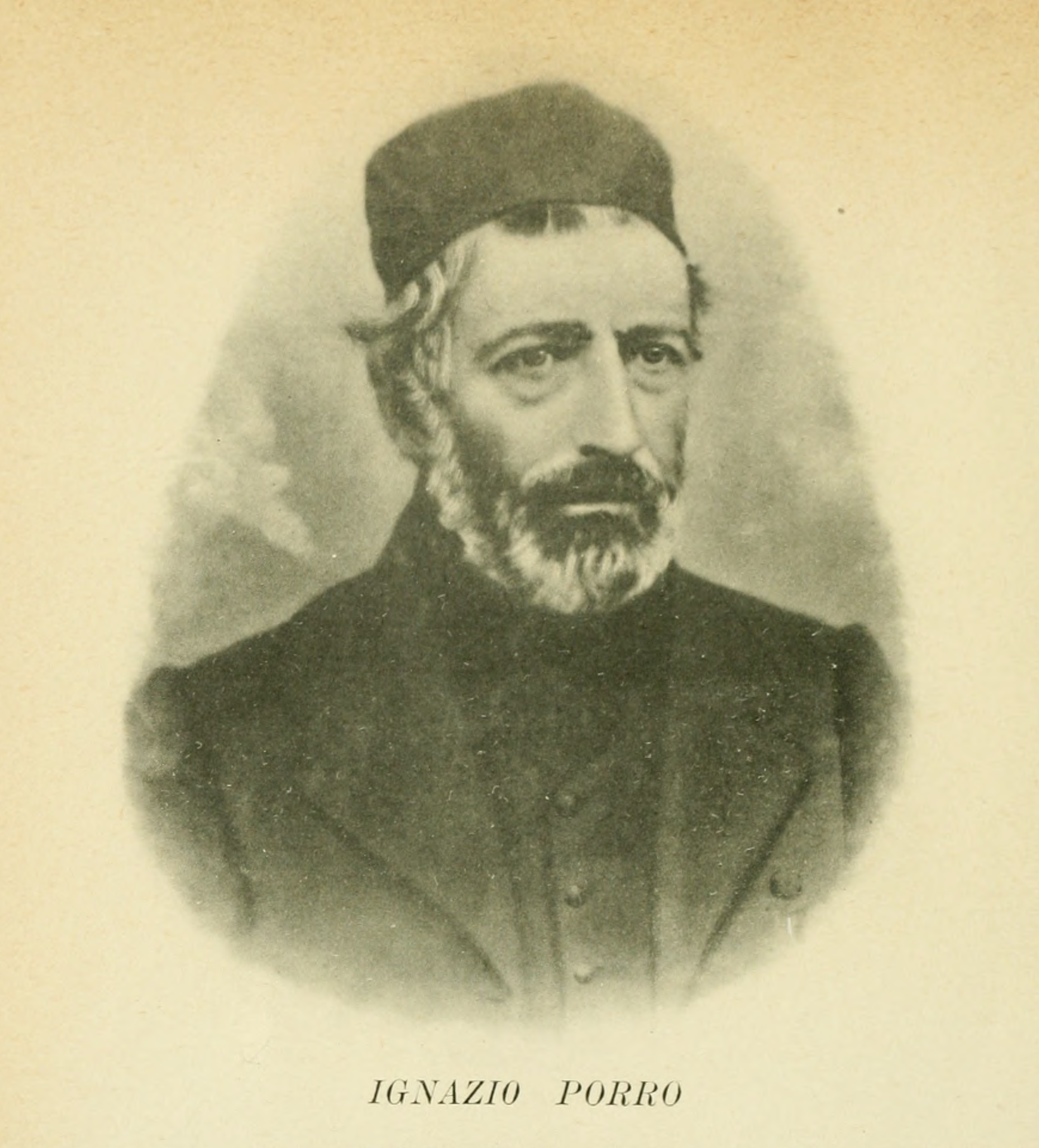 Ignazio Porro (1801–1875), Italian inventor of optical instruments.